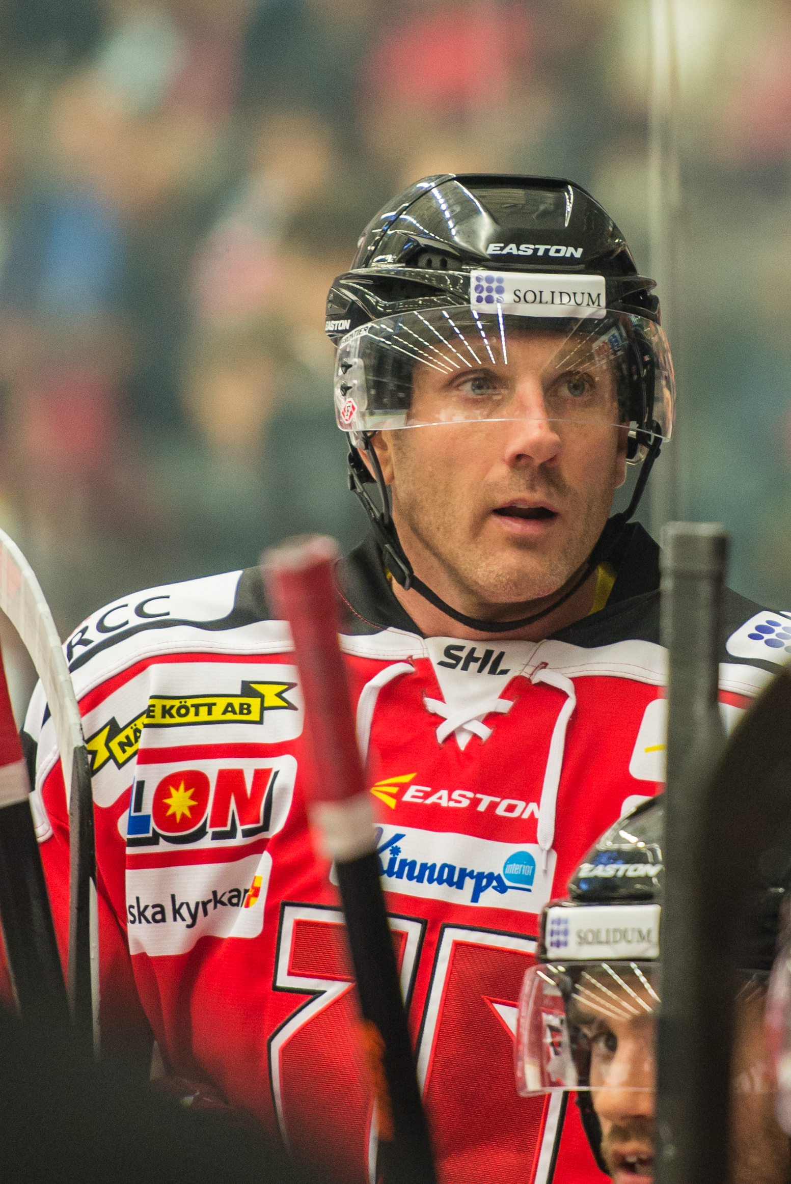 Conny Strömberg playing for Örebro HK in SHL (Swedish Hockey League – Sweden's highest league) vs MODO Hockey in Behrn Arena 2013-10-05.